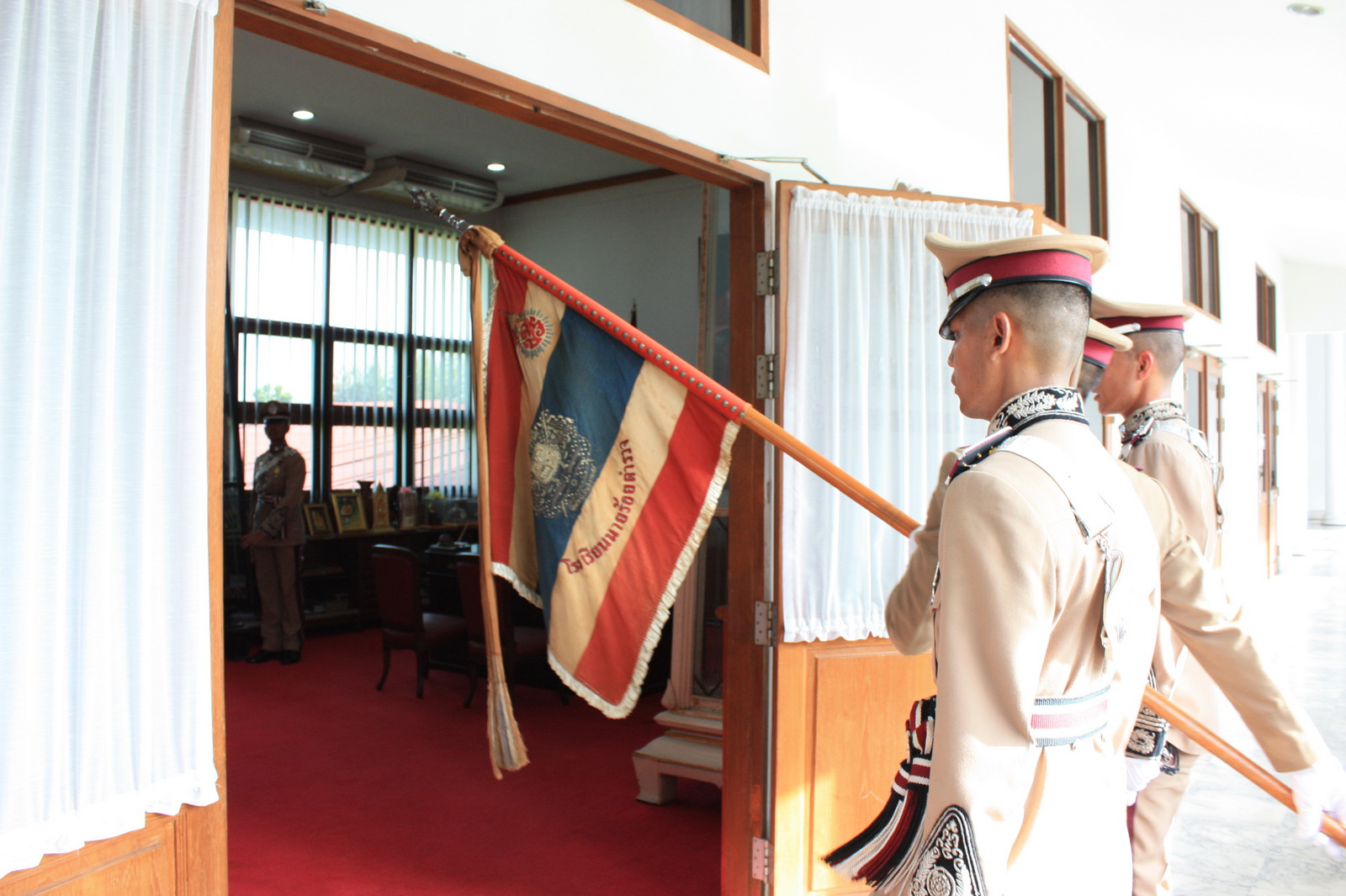 Police Colours of the Royal Police Cadet Academy